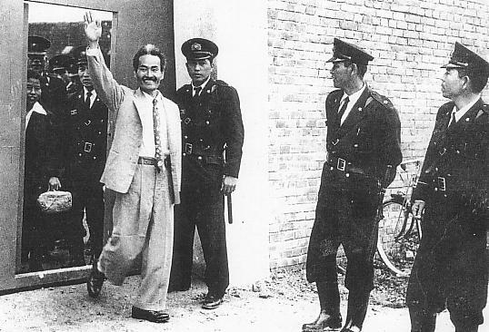 Prison Release of Kamejiro Senaga